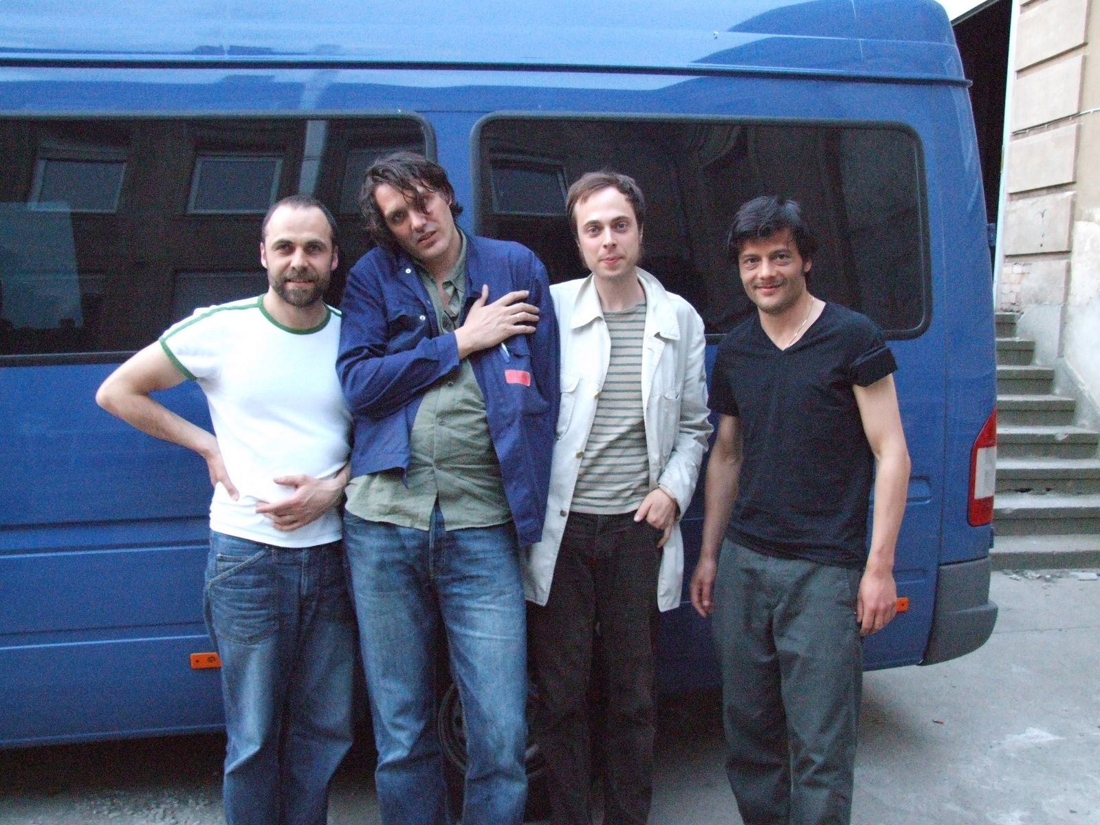 Die Sterne at a Concert in Buckau (Magdeburg), Germany in May 2006